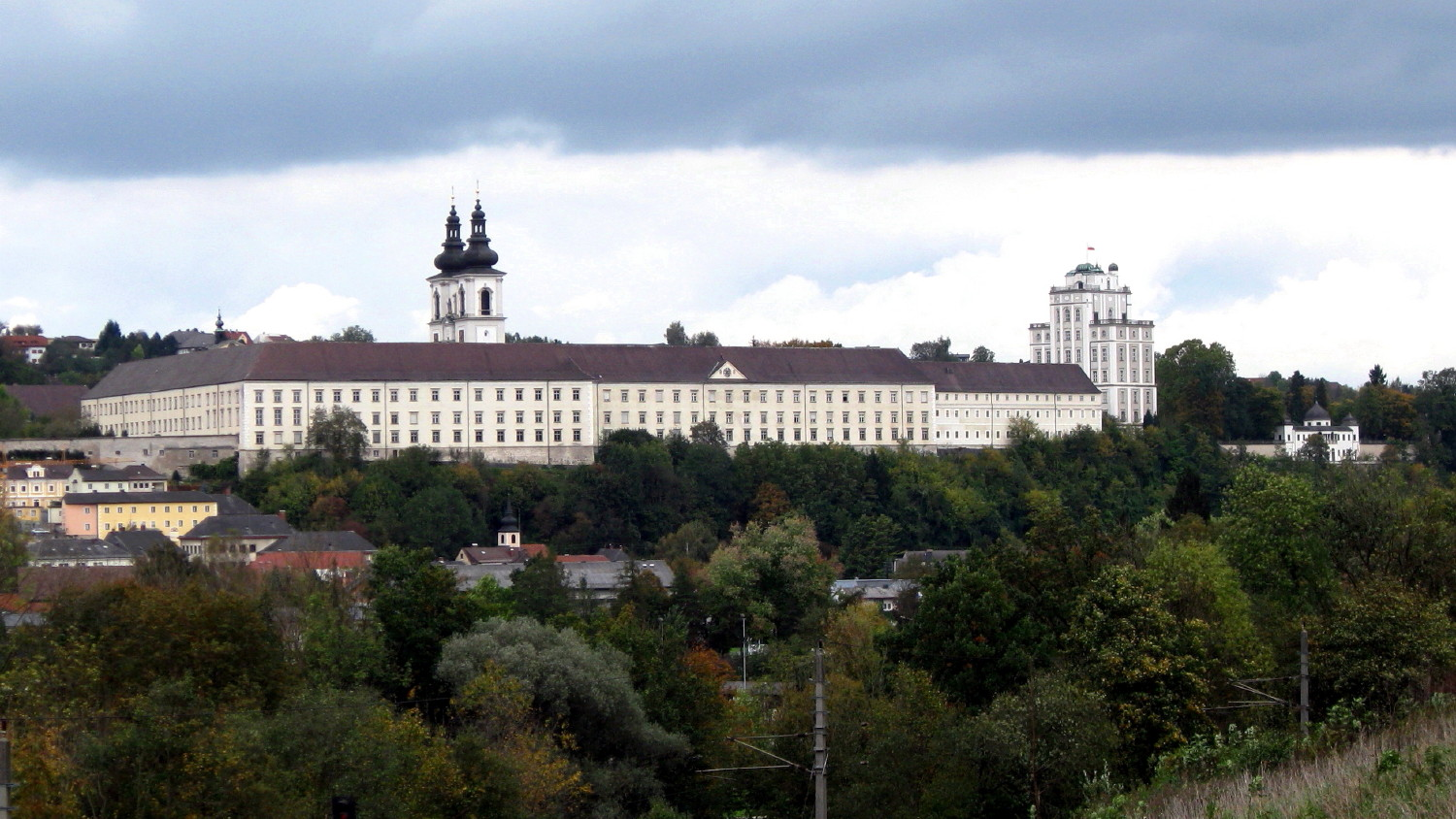 Kremsmünster Abbey, as seen from South. The „Mathematical tower“ with the astronomical observatory is at right.